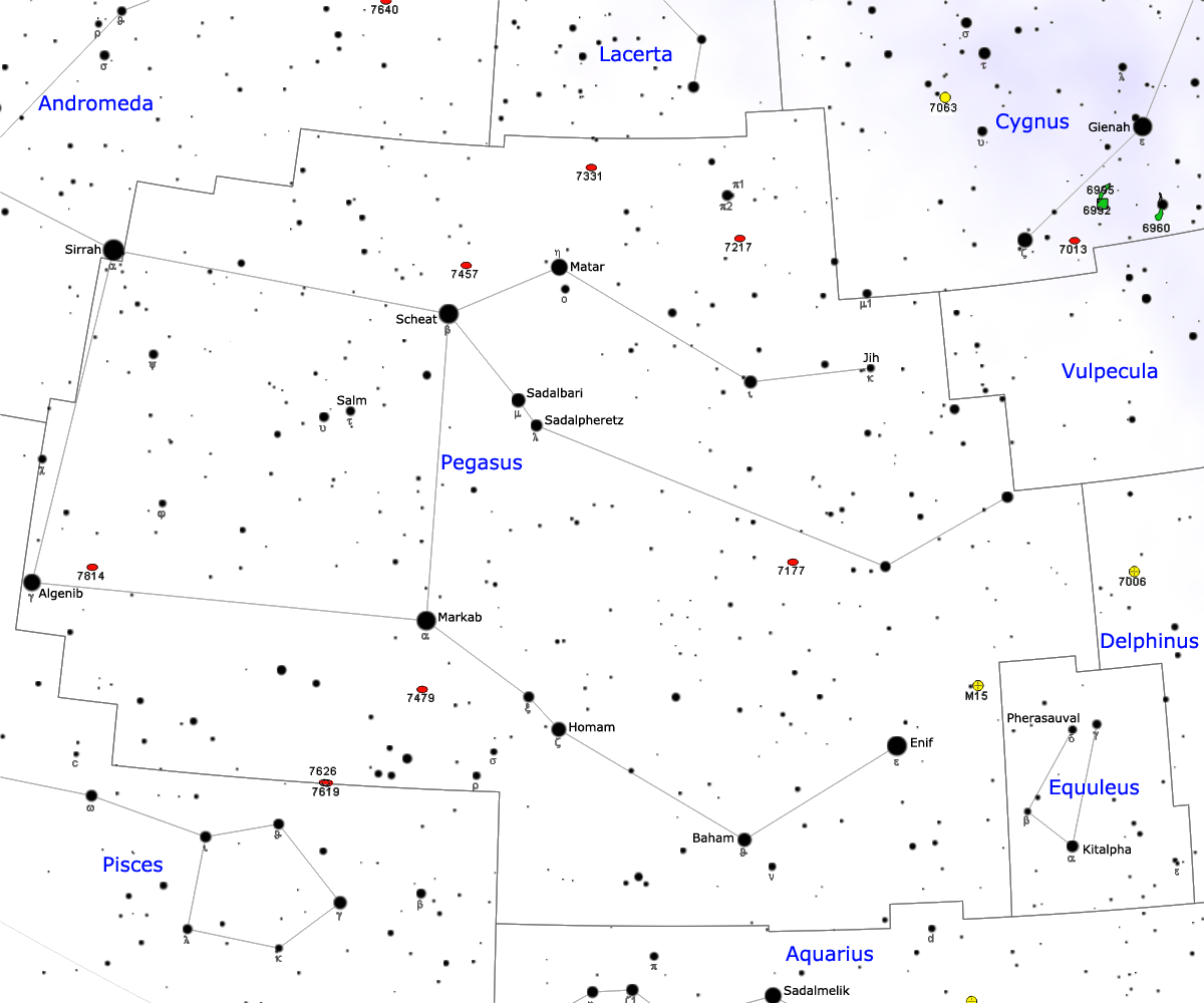 Map of Pegasus and Equuleus